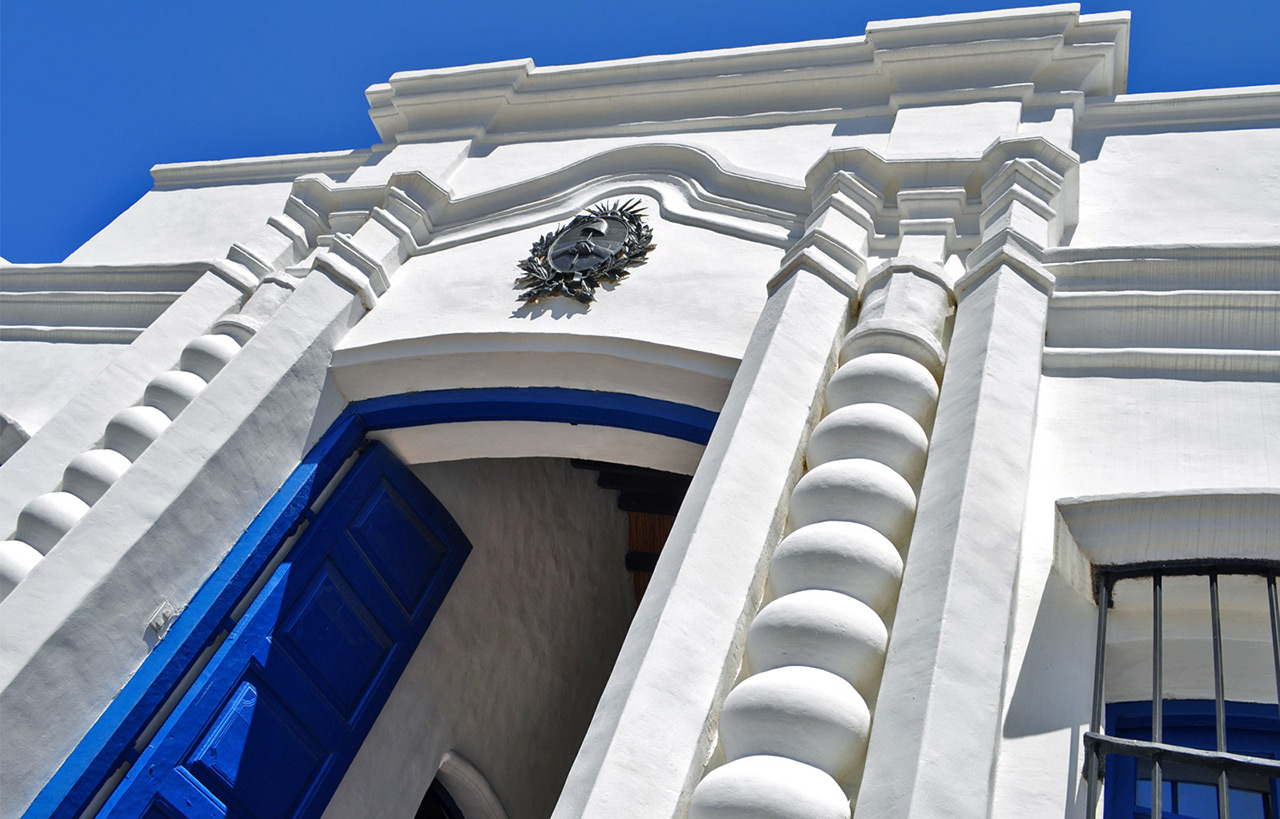 Historic house where Argentina declared independence, in the province of Tucumán.